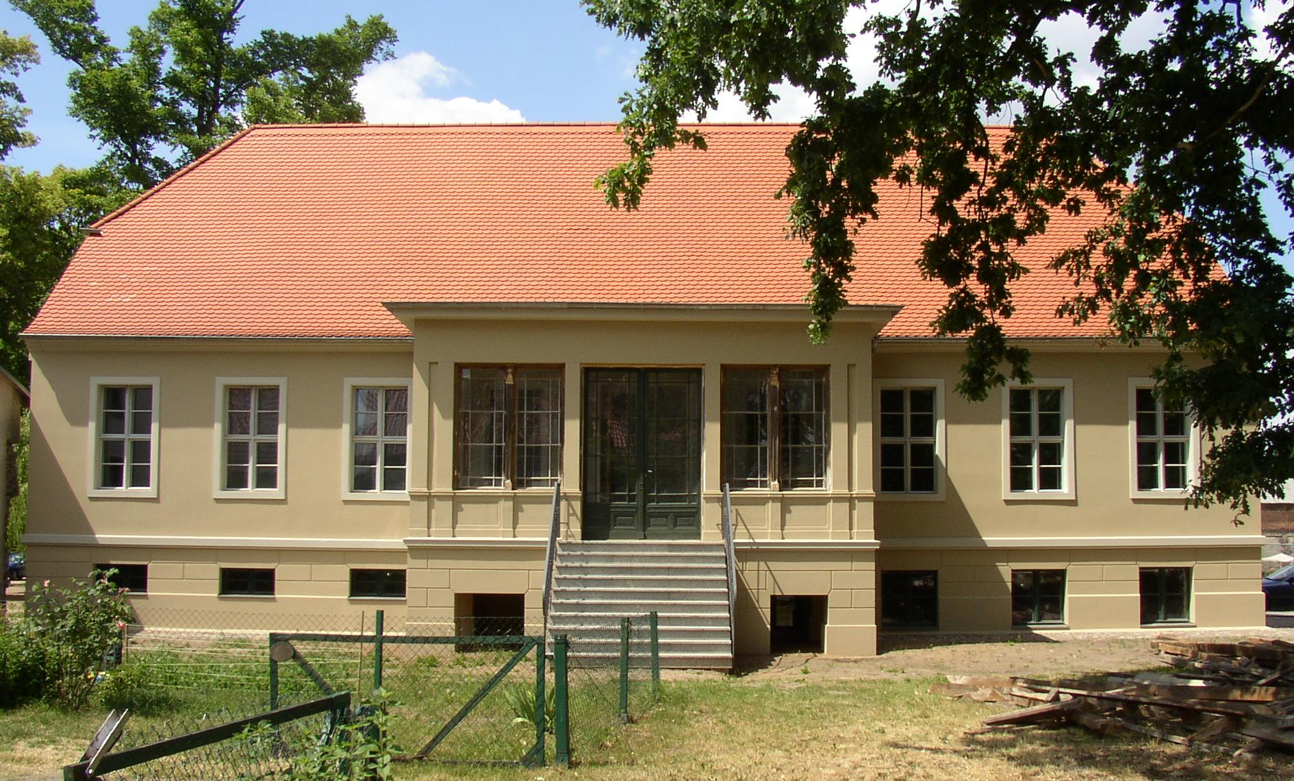 Manor house in Bernau-Börnicke in Brandenburg, Germany